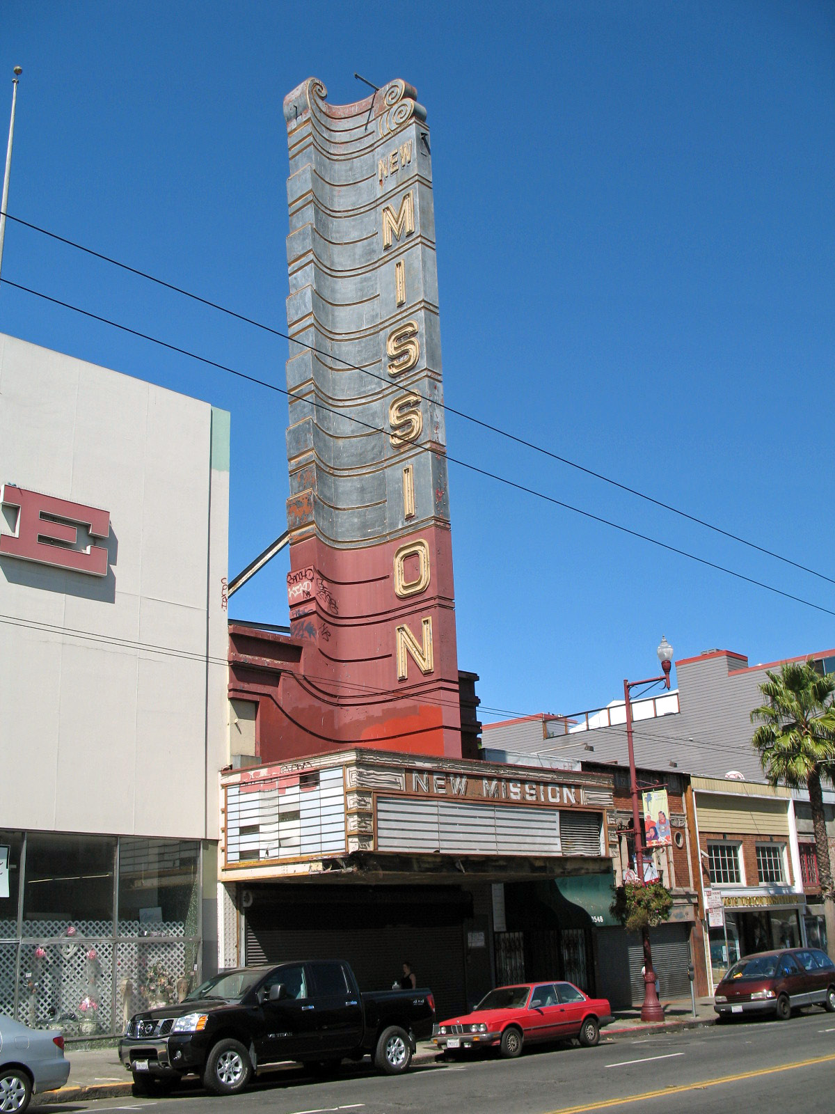 National Register of Historic Places listings in San Francisco, California. New Mission Theater, 2550 Mission St., San Francisco, California, USA. Photographed from the east side of Mission St. between 21st and 22nd Sts.